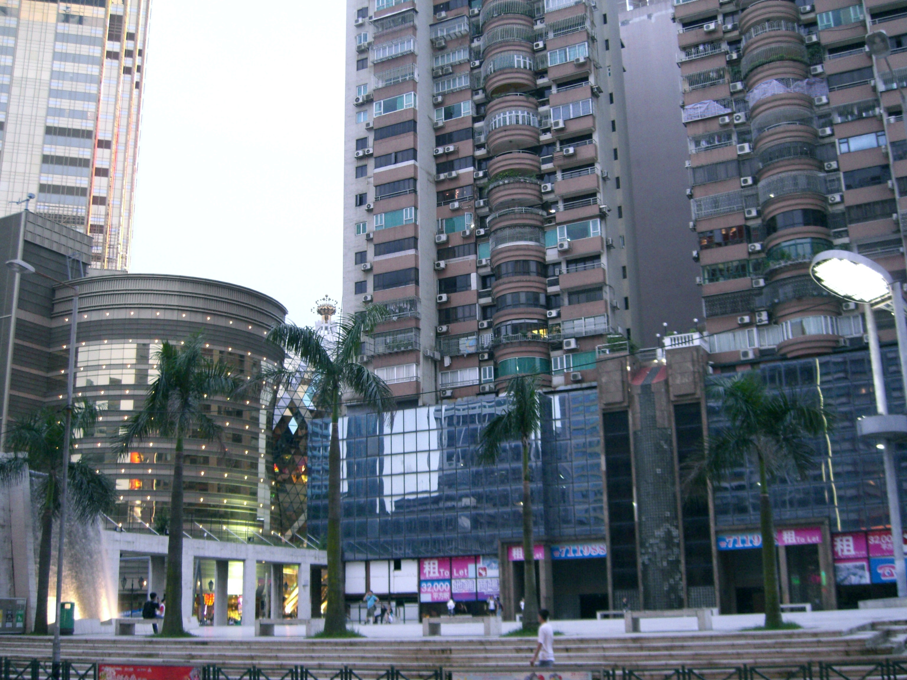 "Praça da Amizade" in Macau